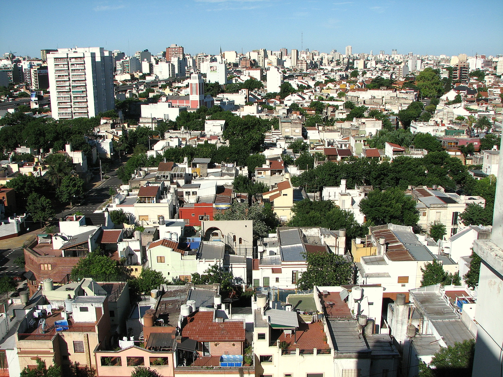 View of the Parque Chacabuco section of Buenos Aires.